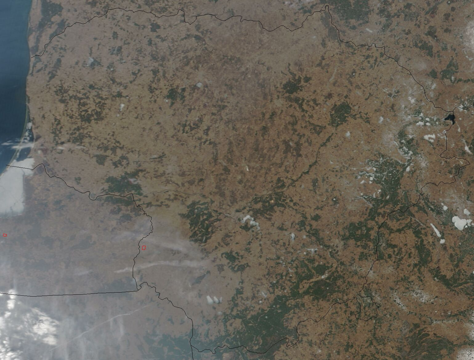 Satellite image of Lithuania in March 2003.